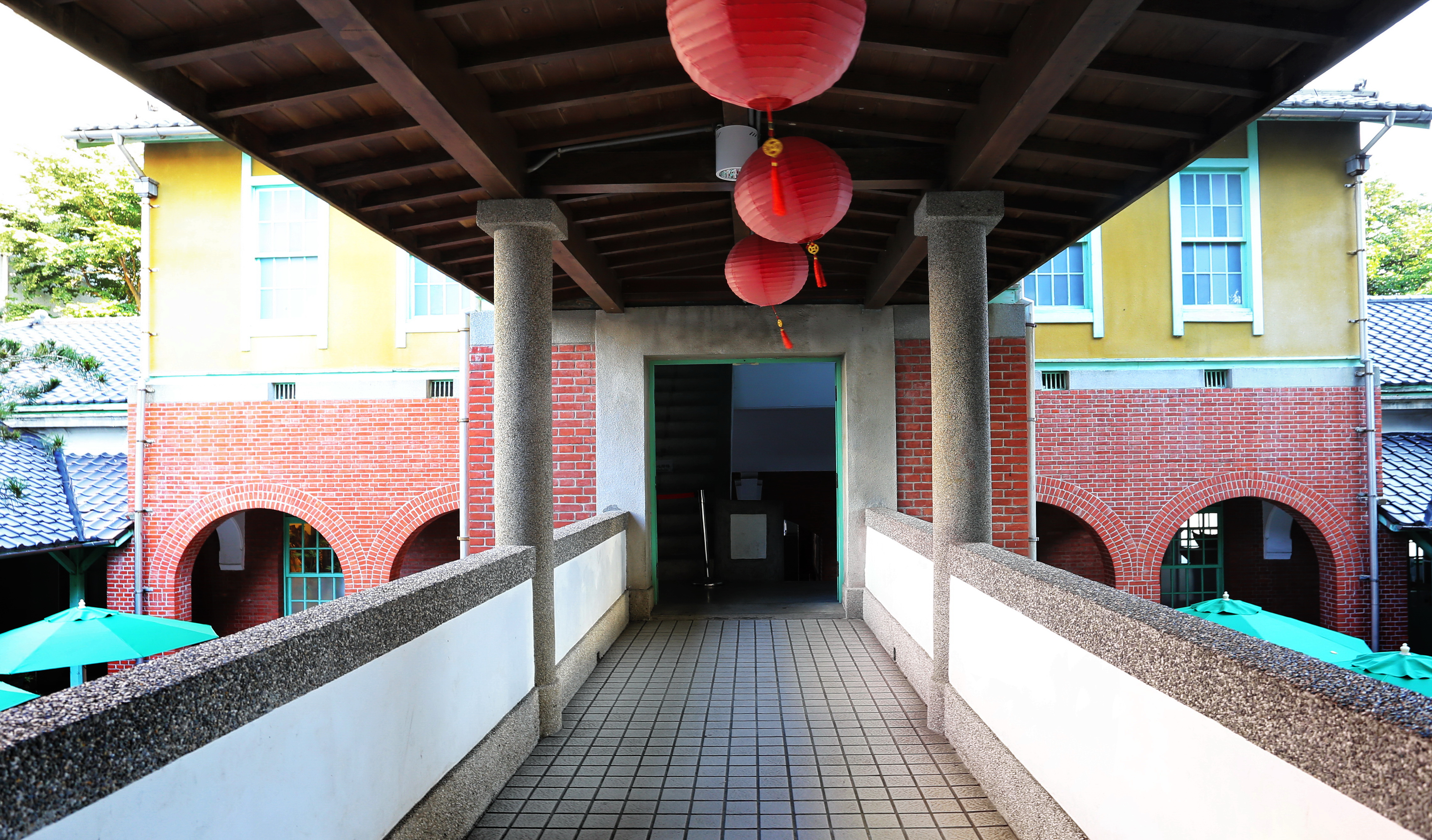 Yunlin Hand Puppet Museum (the former Huwei District Office), second floor, Huwei, Yunlin County, Taiwan.